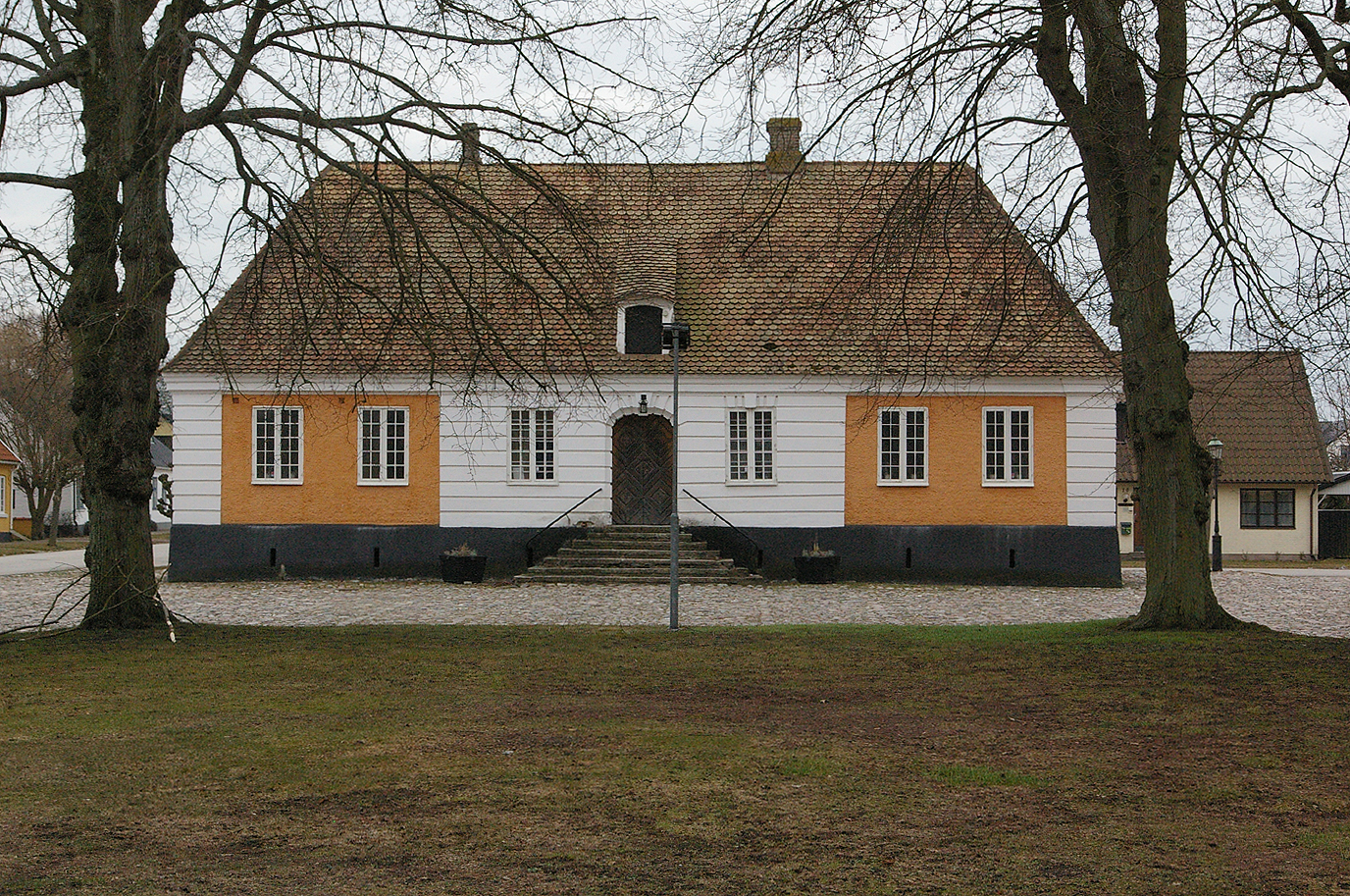 The cityhall from 1777 in Skanör, Sweden.